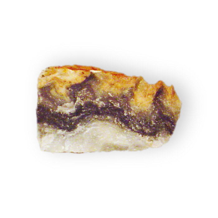 These mineral images are free to use how you wish.